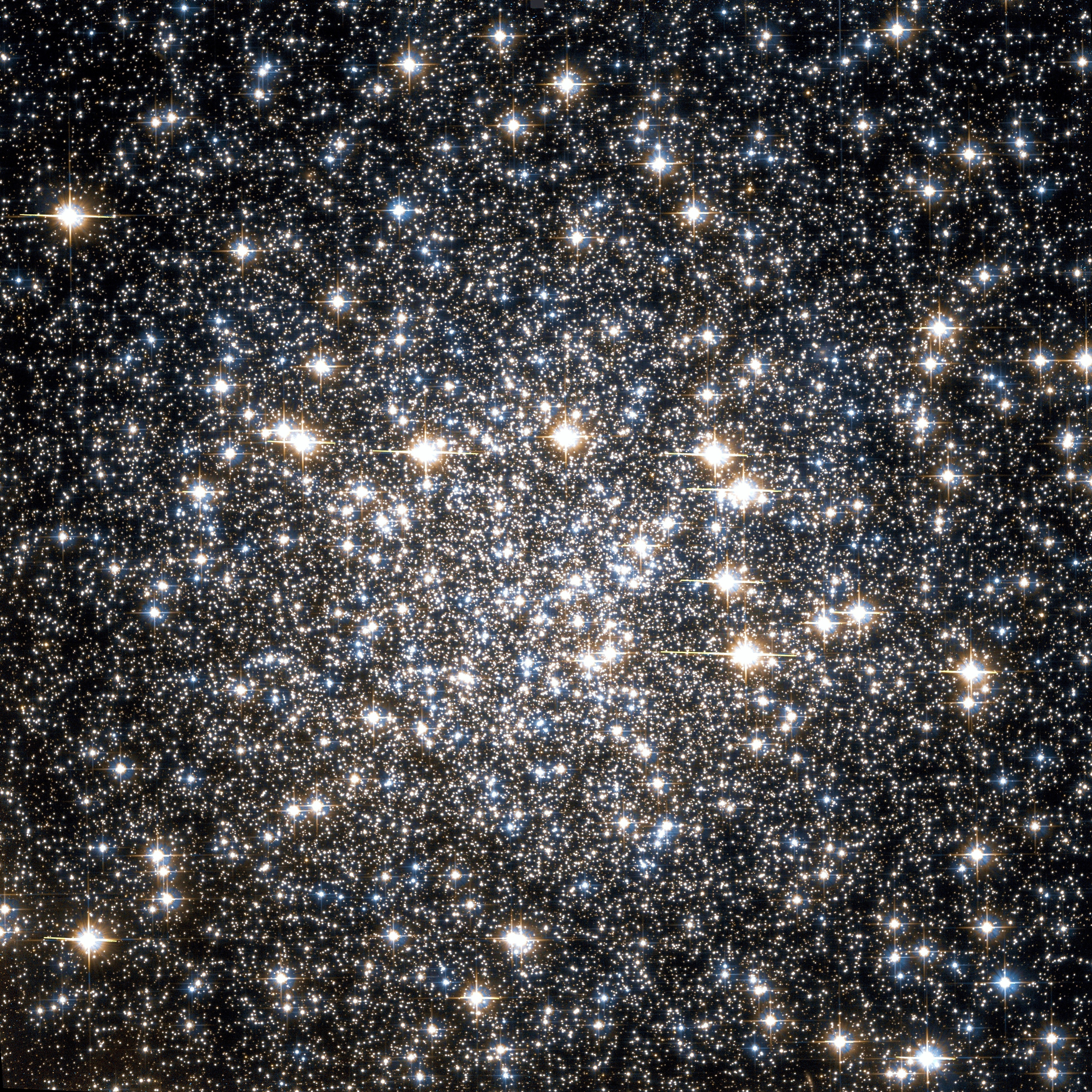 NGC 4833 globular cluster by Hubble Space Telescope; 3.5′ view